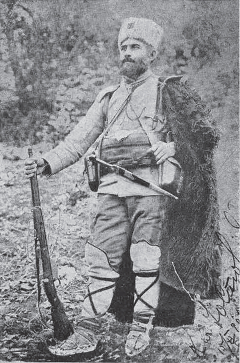 Officers of SMAC band of Yordan Stoyanov